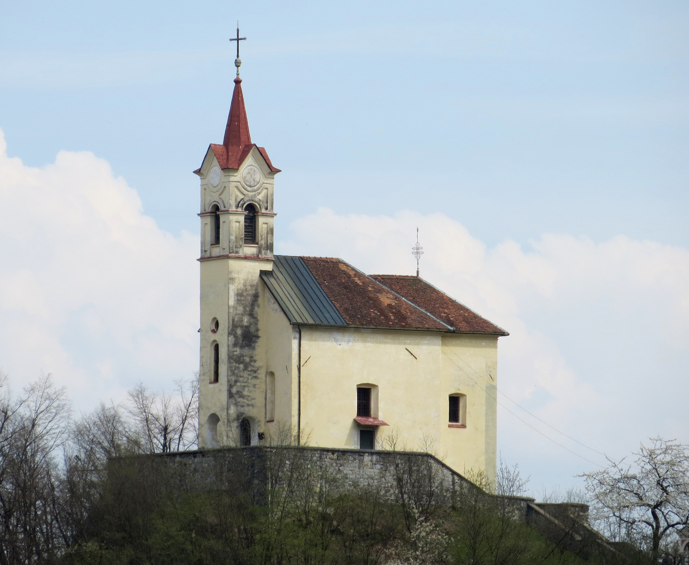 Holy Cross Church in Puštal, Municipality of Škofja Loka, Slovenia